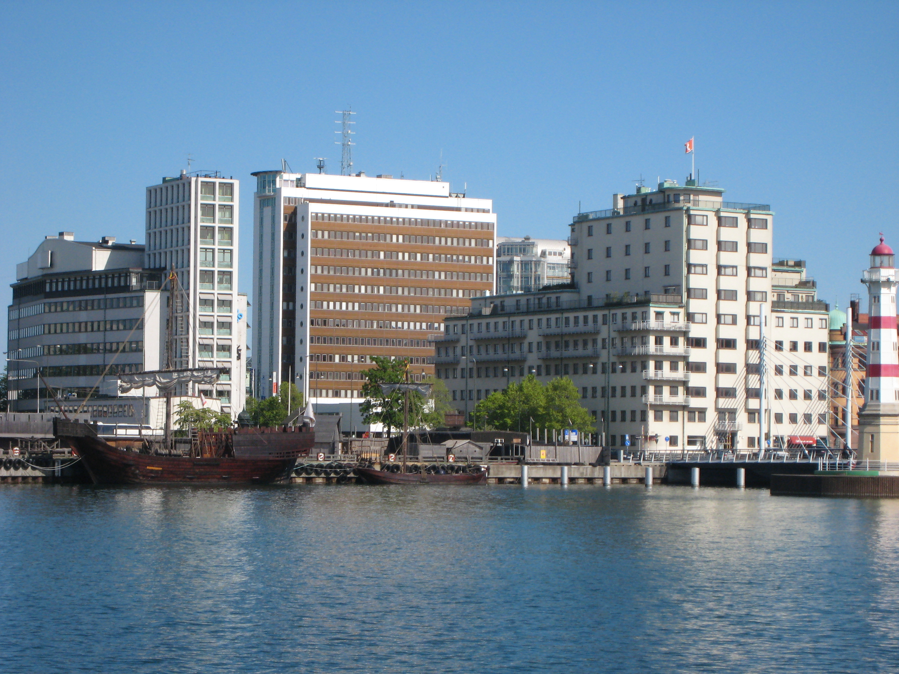 Öresundshuset, Malmö